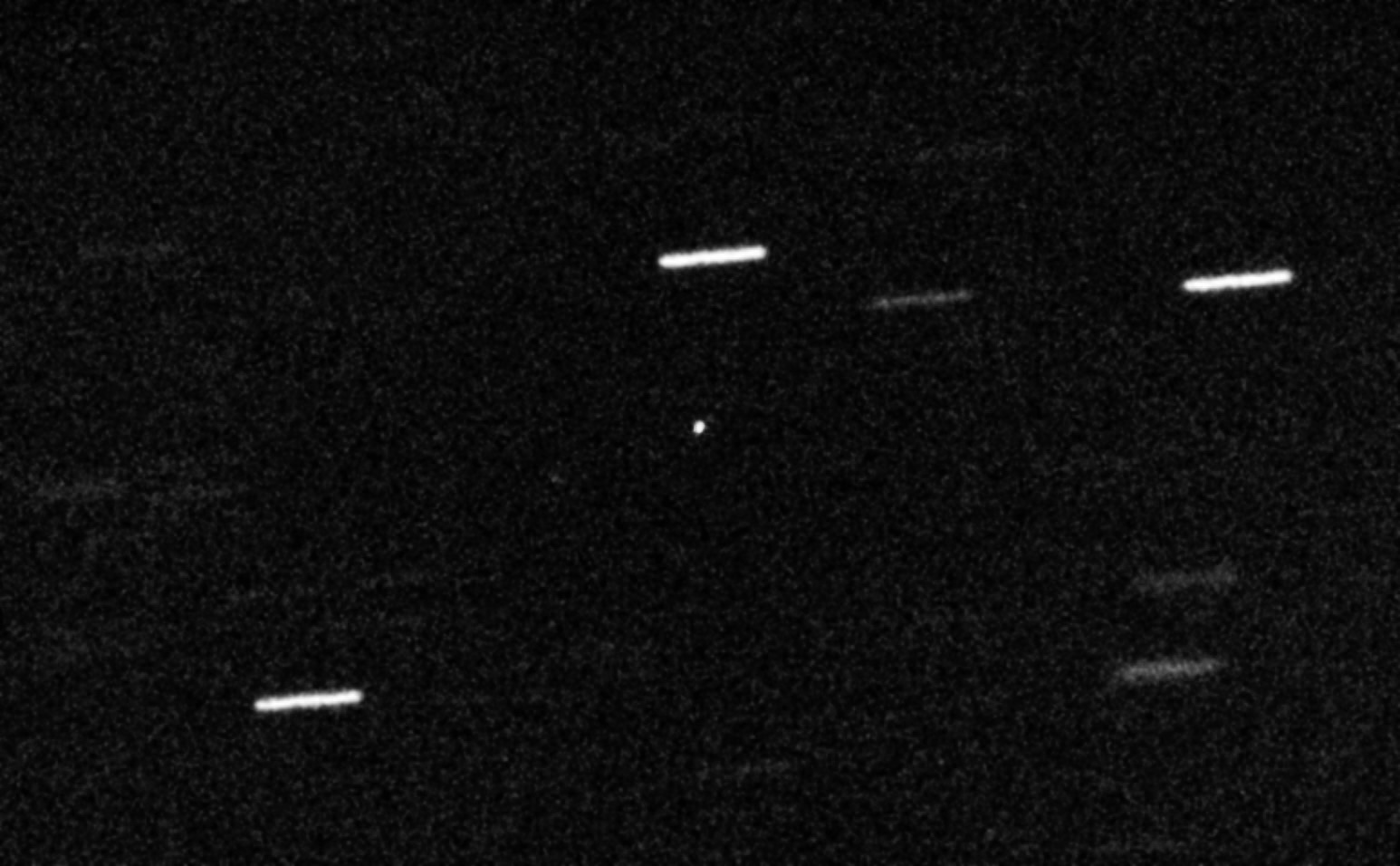 1I/ʻOumuamua, imaged with the 4.2 meter William Herschel Telescope in the Canary Islands on 28 October 2017, is seen as a stationary light source in the centre of the image. Background stars appear streaked because the telescope is tracking the rapidly moving object.